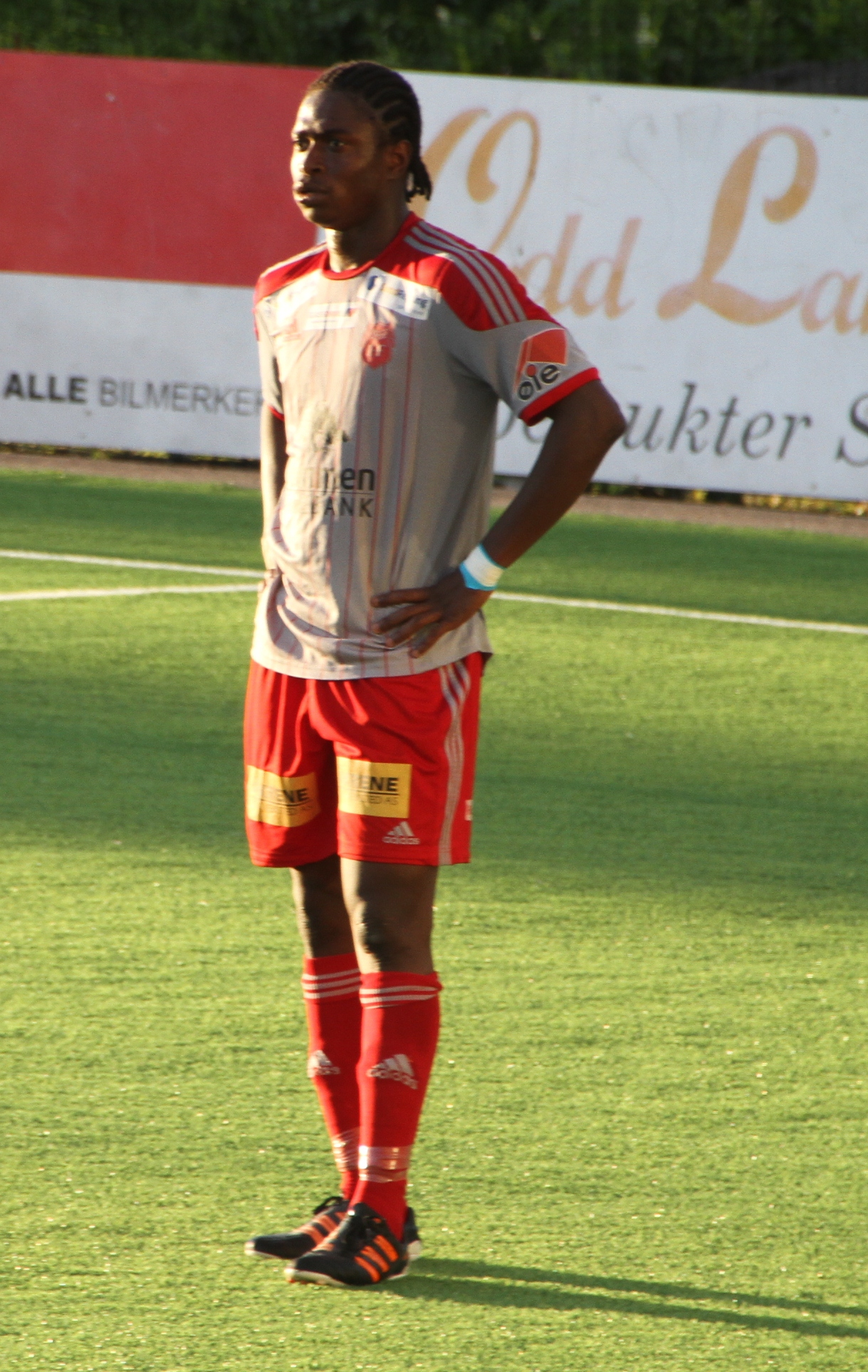 Strømmen IF player, originally from Cote d'Ivoire. Strømmen stadium, Akershus, Norway.